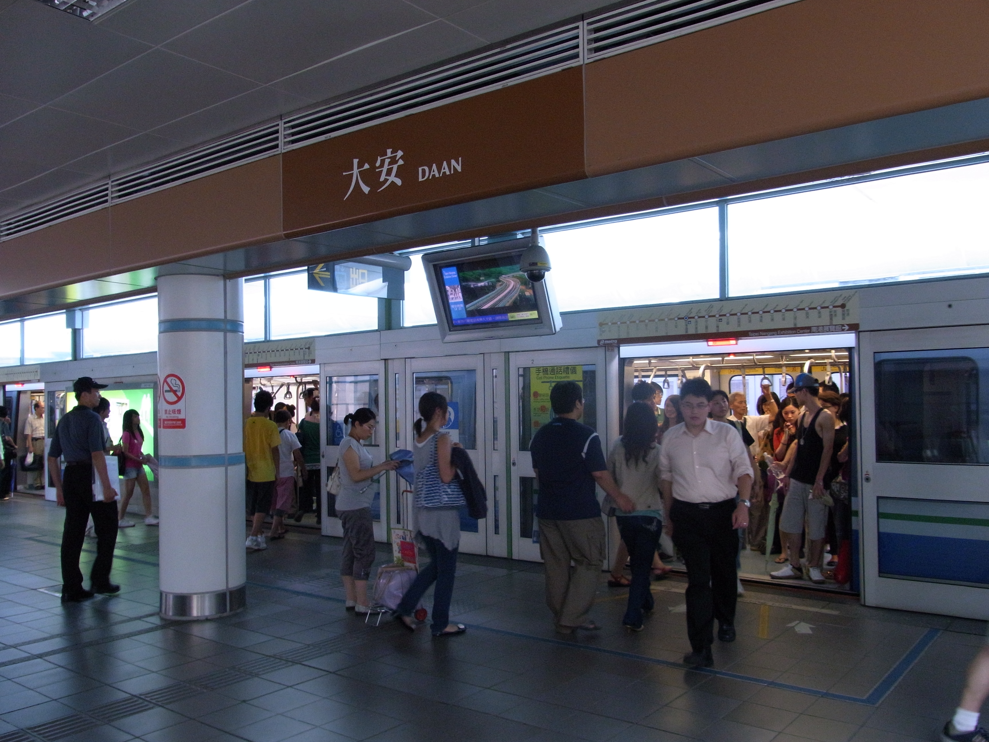 Platform 1, Taipei MRT Daan Station.